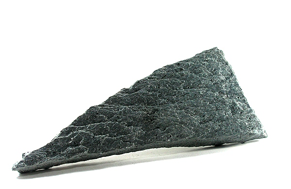 Ottrélite Locality: Ottré, Vielsalm, Stavelot Massif, Luxembourg Province, Belgium (Locality at ) This is an exceptional large specimen of a real rarity! Seldom seen in such large pieces, and so richly sprinkled with crystals. 28.3 x 12 x 2.1 cm